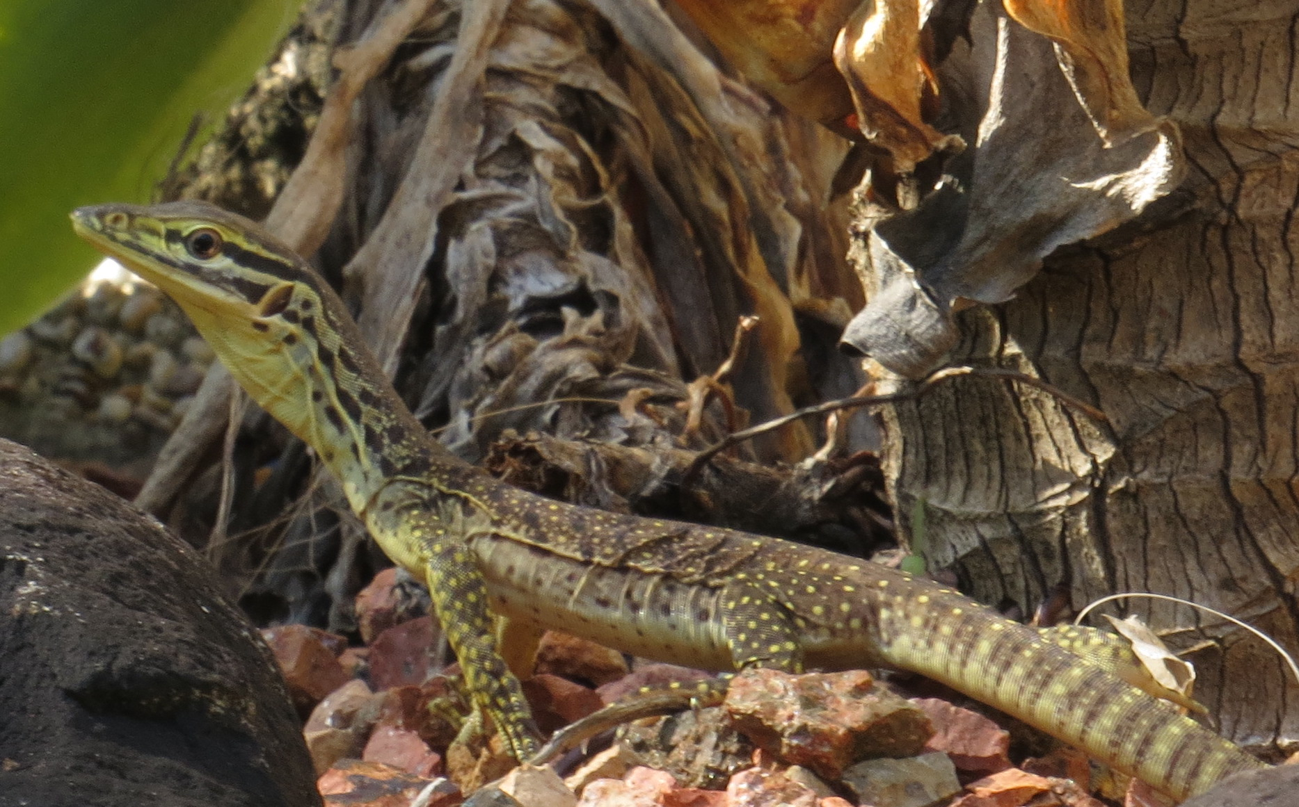 Varanus panoptes (Storr, 1980), Clump Point, Mission Beach, QLD, 23 November 2014